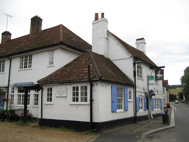 West Wycombe: The Swan Inn With the exception of the Village Hall, every building on the south side of the High Street in West Wycombe is listed. This is The Swan Inn with a later extension to the rear. Also in the photograph is The Swan Inn bus stop. The weekday hourly bus service to Stokenchurch, Chinnor and Thame stops here.